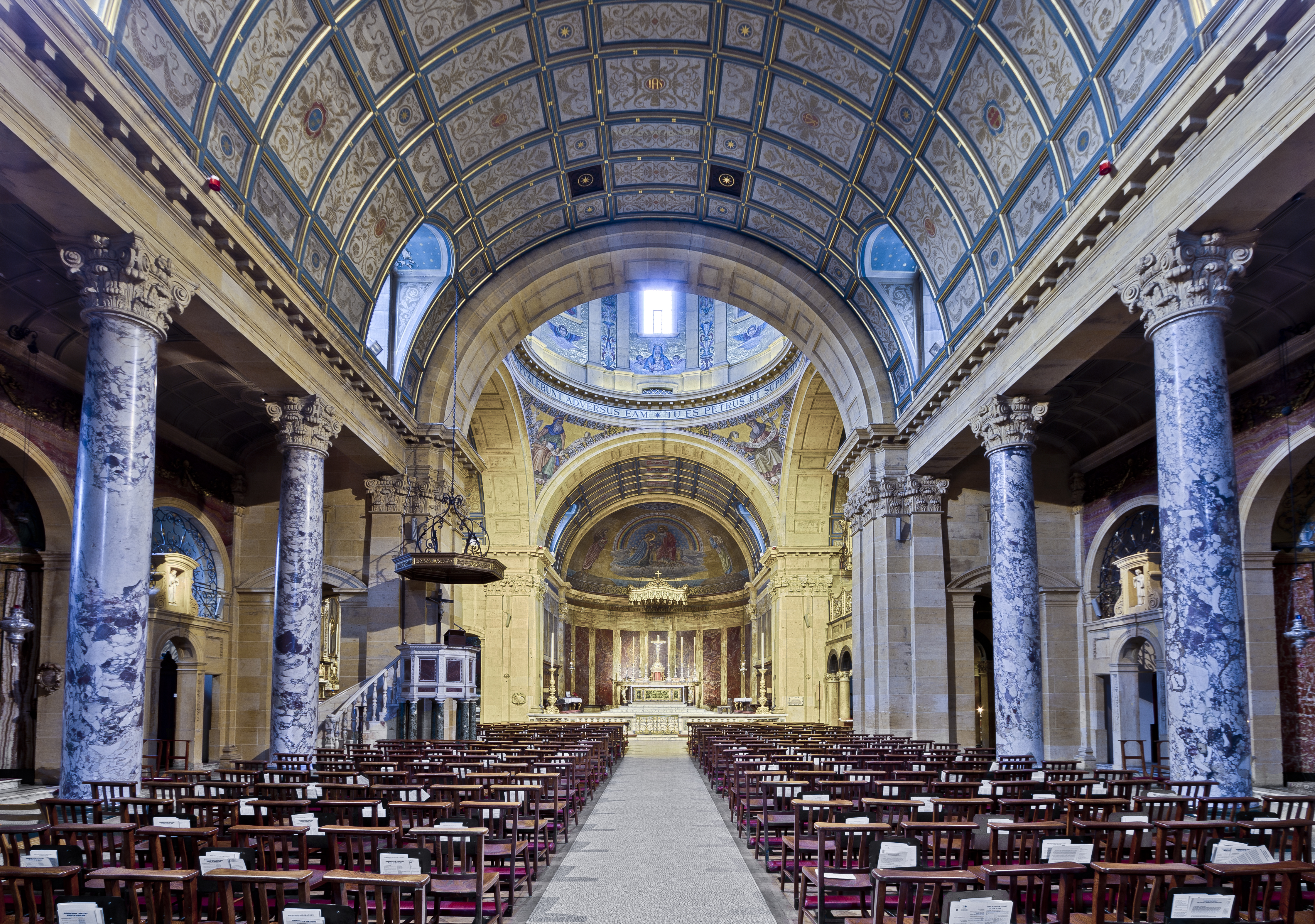 hdr photograph taken inside the Roman Catholic Oratory Church of the Immaculate Conception, Edgbaston, Birmingham, England